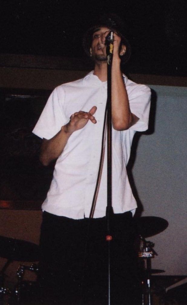 A photo I took of Corey Clark and Rueben Studdard